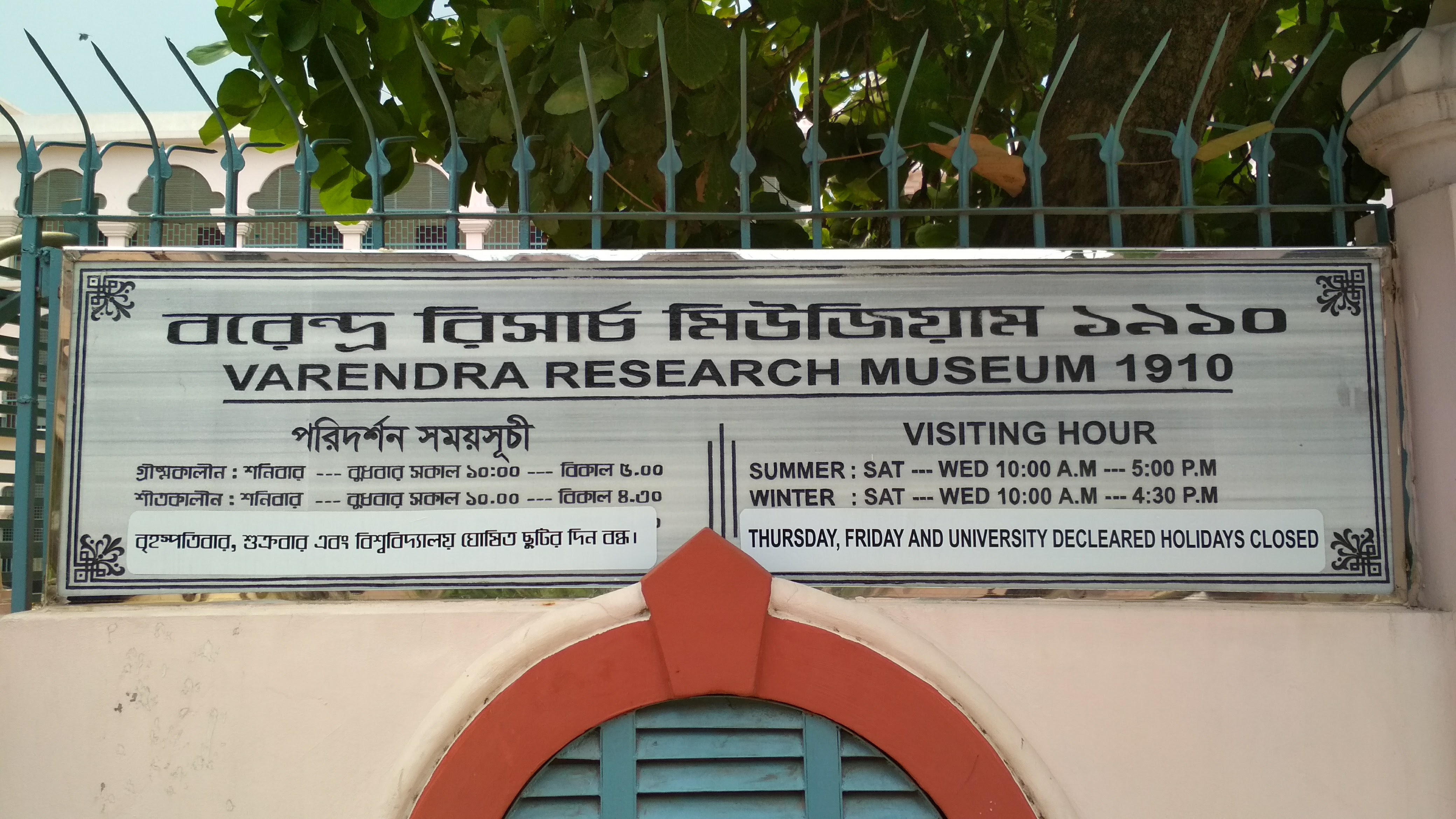 Time Table of Varendra Research Museum